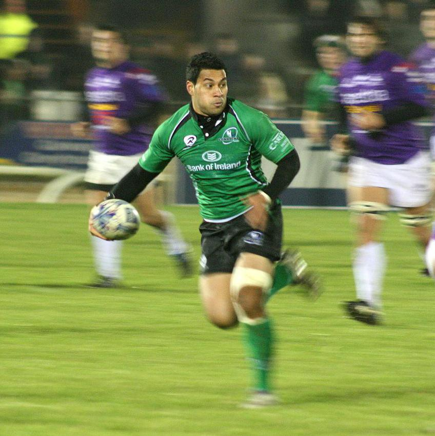 Connacht vs Cavalieri Prato Niva Ta'auso makes a break. He ran the length of the pitch to score under the posts. I got a bit lucky with this shot - I panned with him and managed to keep his upper half unblurred. Under the floodlights there just isn't quite enough light for my lens to freeze action.